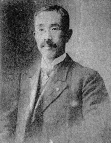 Yoshisaburō Okano, 2nd director of the Eighth Higher School.